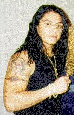 Professional wrestler Juventud Guerrera in 1998.